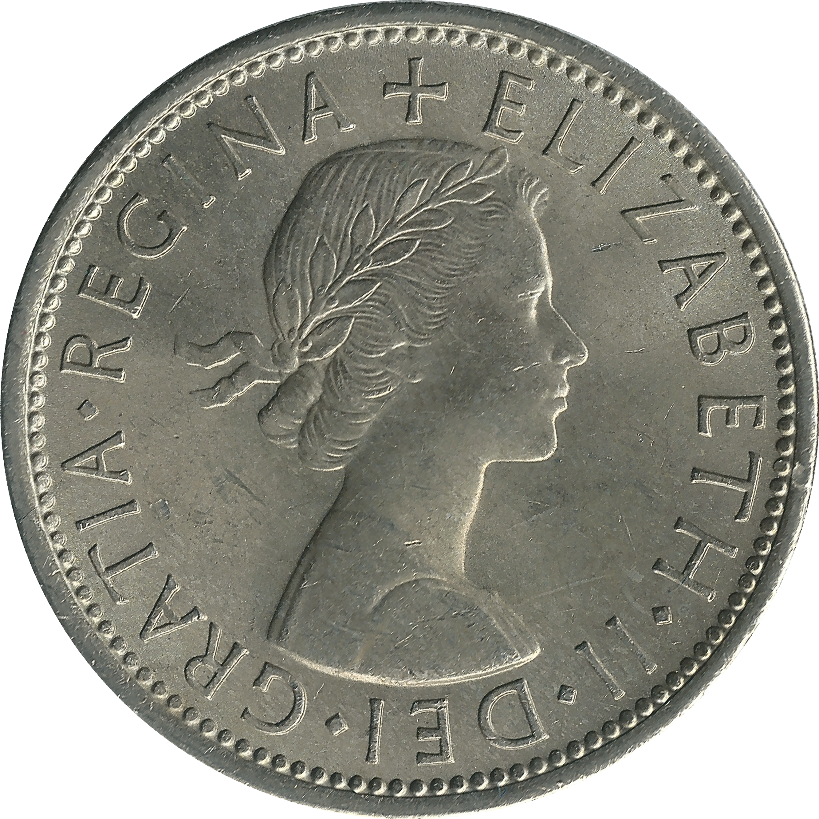 Obverse of the 1967 British florin